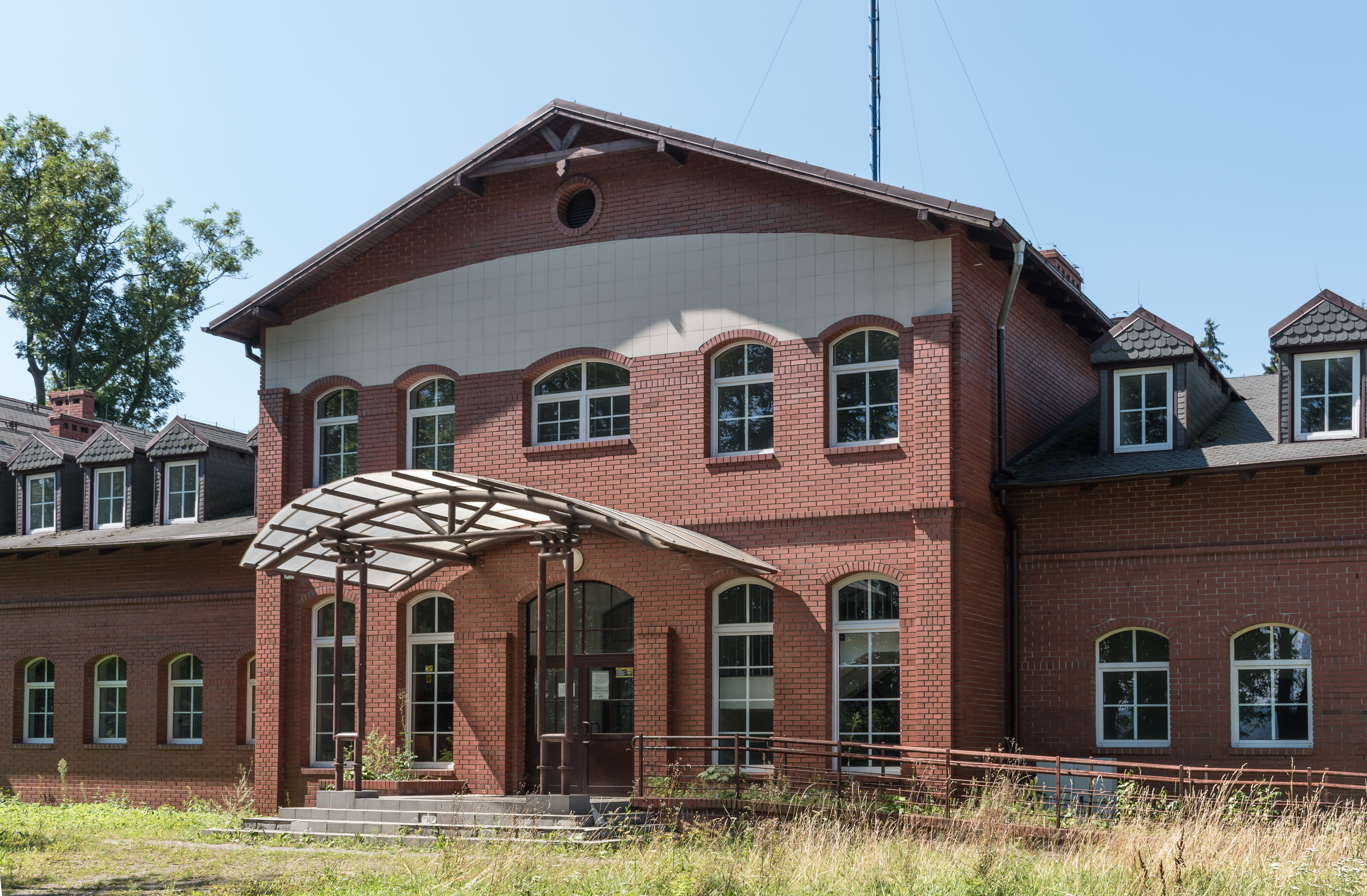 Międzylesie train station